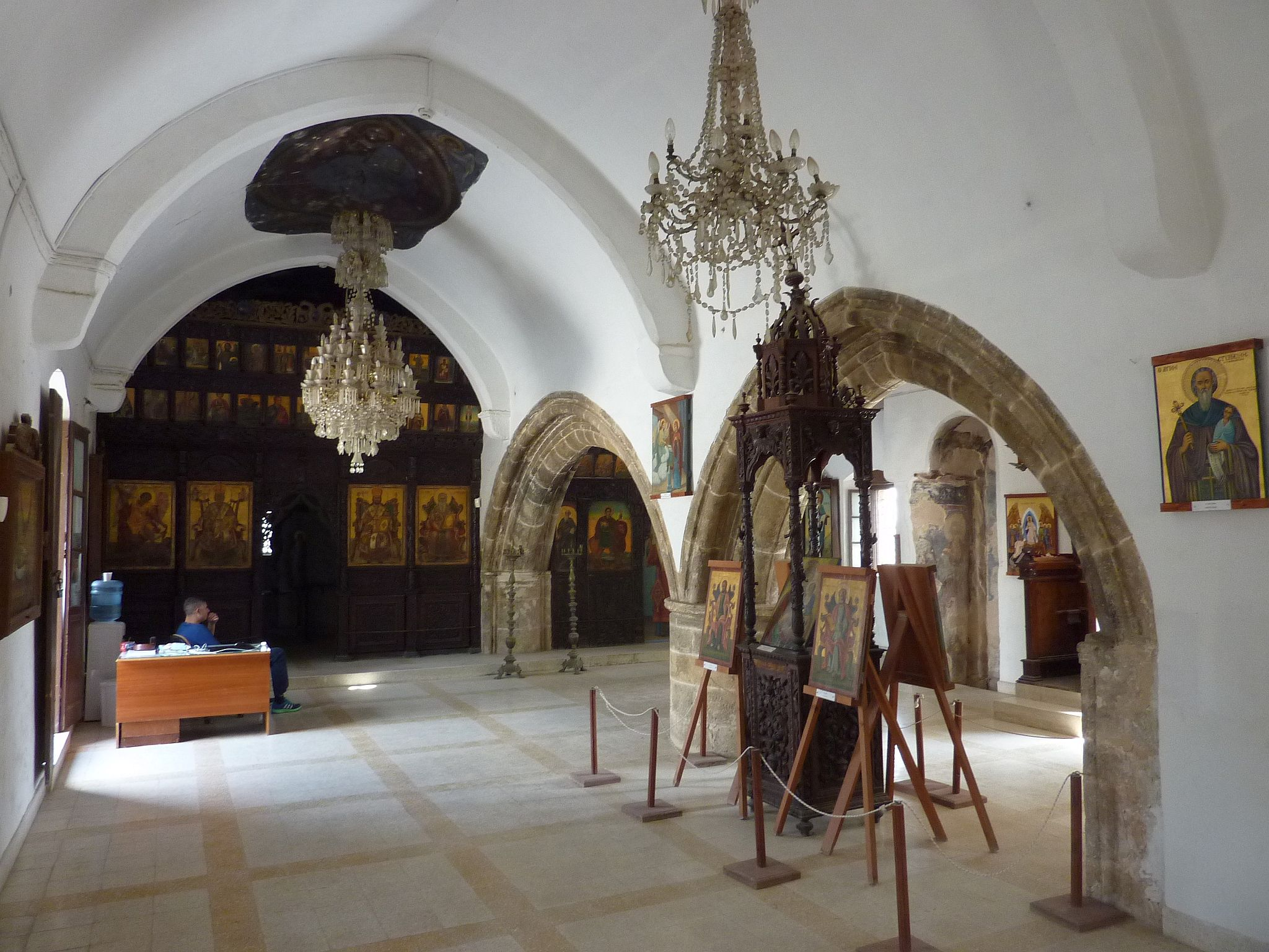 Interior of Panagia Theotokos, Iskele, Cyprus